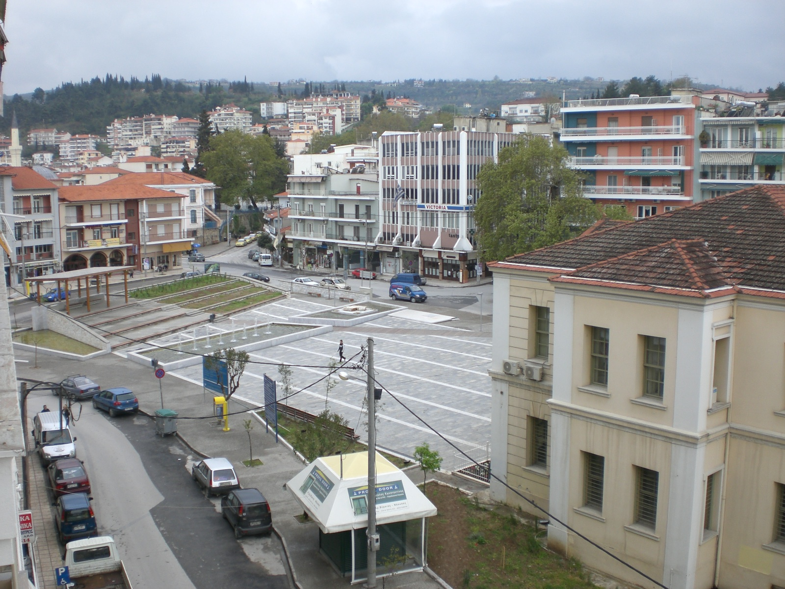 View across Veria's main square